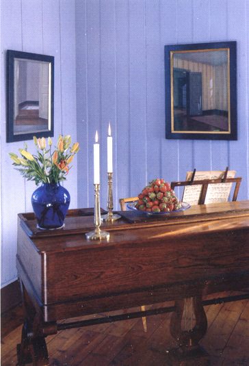 interior from Nyfossum